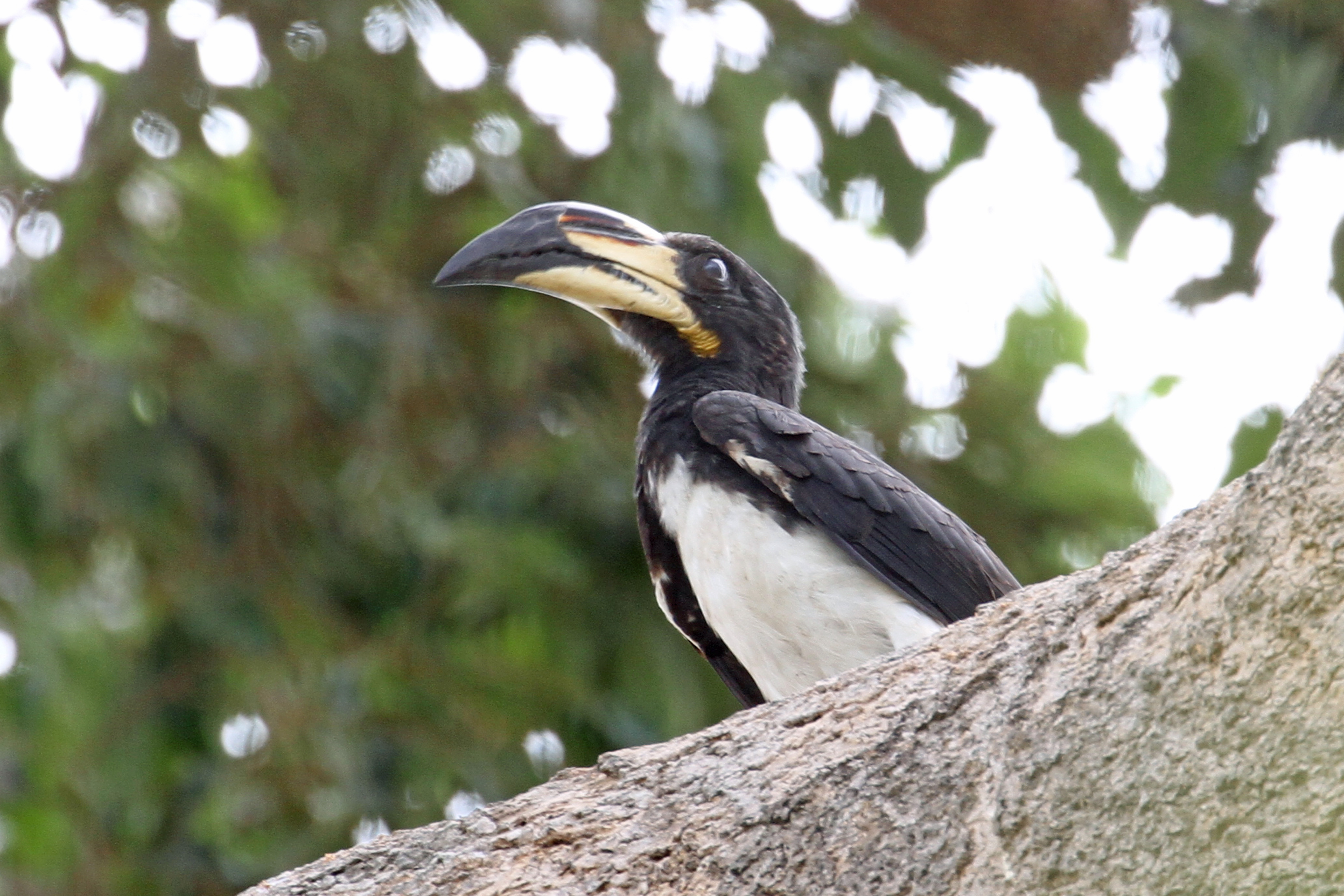 African Pied Hornbill